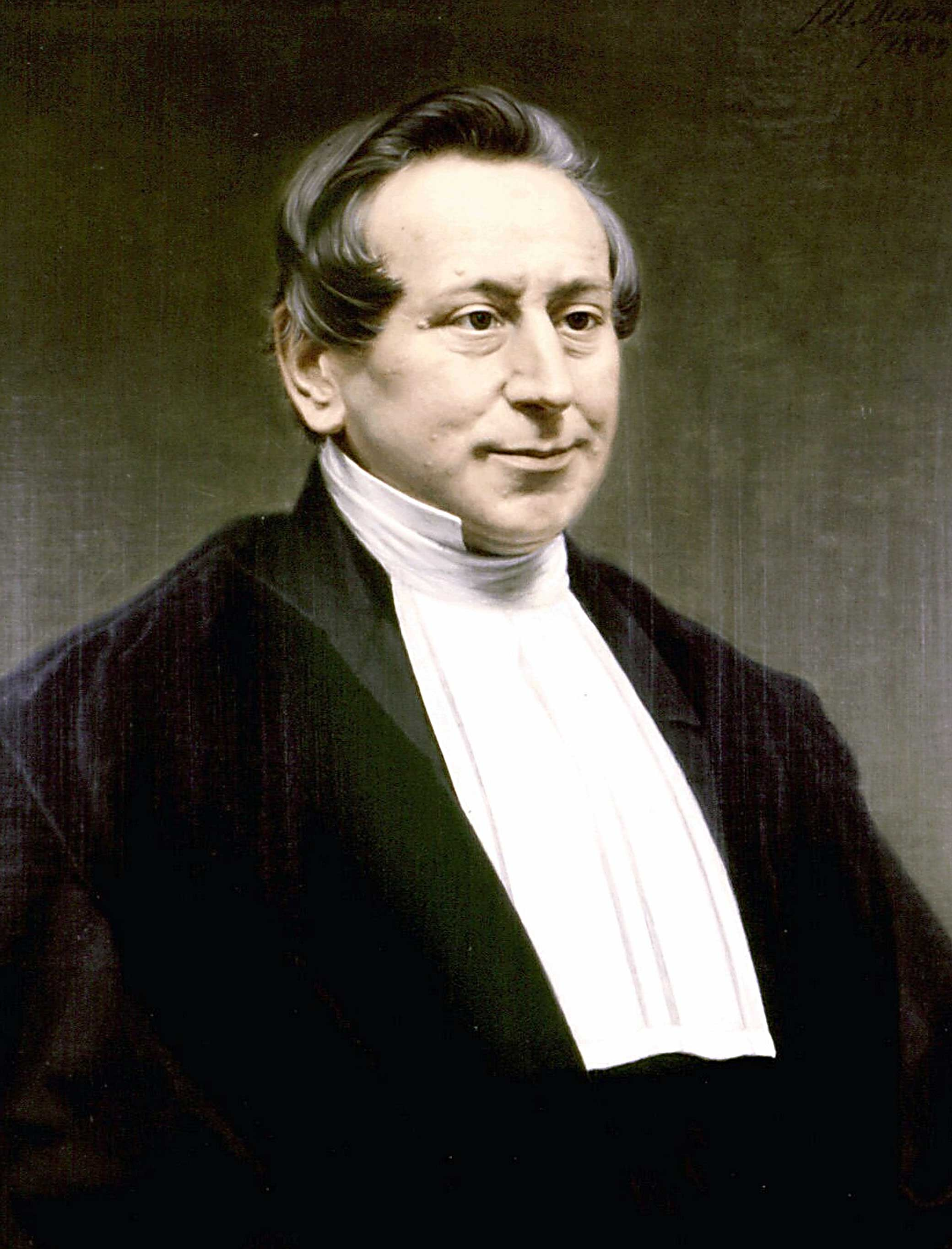 Henricus Christianus Millies (1810-1868) Dutch lutheran theologian and orientalist